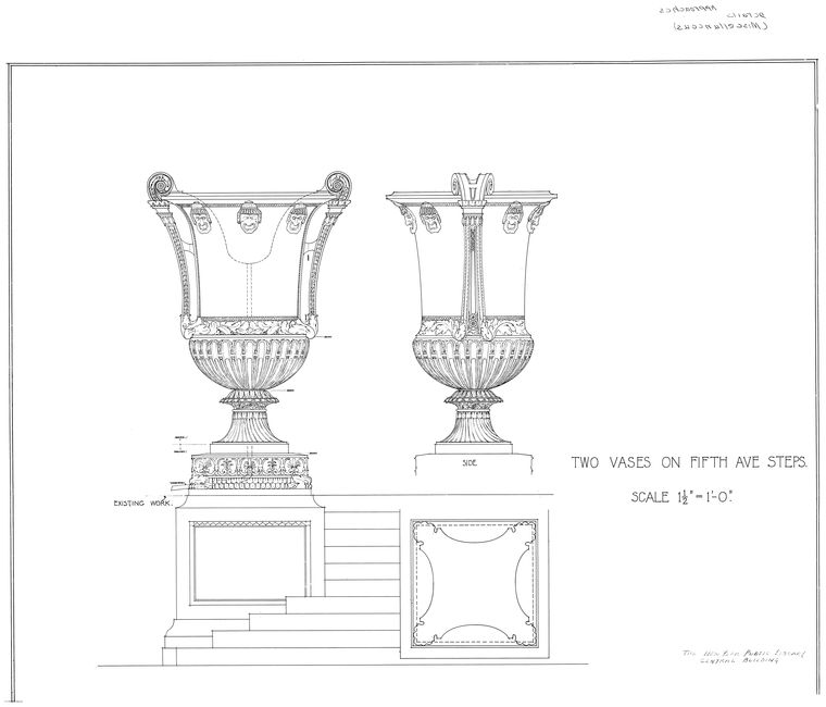 "Two vases on Fifth Avenue steps." From the architectural plans for the New York Public Library Main Branch by the New York City firm of Carrère & Hastings. Courtesy of the New York Public Library Digital Collection.